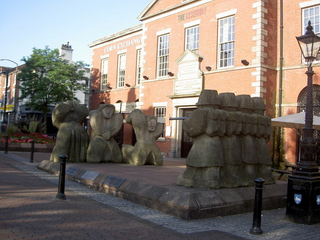 The Preston Martyrs This statue commemorates four workers – George Sowerbutts, a 19 year old weaver from Chandler Street employed at Gardner’s Mill, Bernard McNamara, a cotton stripper aged 17 from Birk Street employed at Oxendale’s mill, William Lancaster aged 25 and John Mercer aged 27, a handloom weaver from Ribbleton Lane – who on 13th August 1842, at this end of Lune Street, in the presence of the Chief Constable and the Mayor, were shot by troops of the 72nd Highlanders. All four young workers died between one and six days after the shooting – death from gunshot wounds in those days was seldom instant. As one of the leading centres of the industrial revolution, Preston was also a centre of class conflict – vividly portrayed in Dickens’ Hard Times, published in 1854. The late 1830s and early 1840s were a period of intense industrial and political struggle, which came to a head in a combination of factory strikes and Chartist agitation for Parliamentary reform that swept the country following the rejection of the People’s Charter by the House of Commons in 1842. In Preston this took the form of a head-on collision between strikers and the authorities on 12th and 13th August, of which the shootings were the awful culmination. Whether planned or not, the four deaths had the desired effect in quelling the agitation. Source: J. S. Leigh, Preston Cotton Martyrs – the millworkers who shocked a nation (Palatine Books 2007).